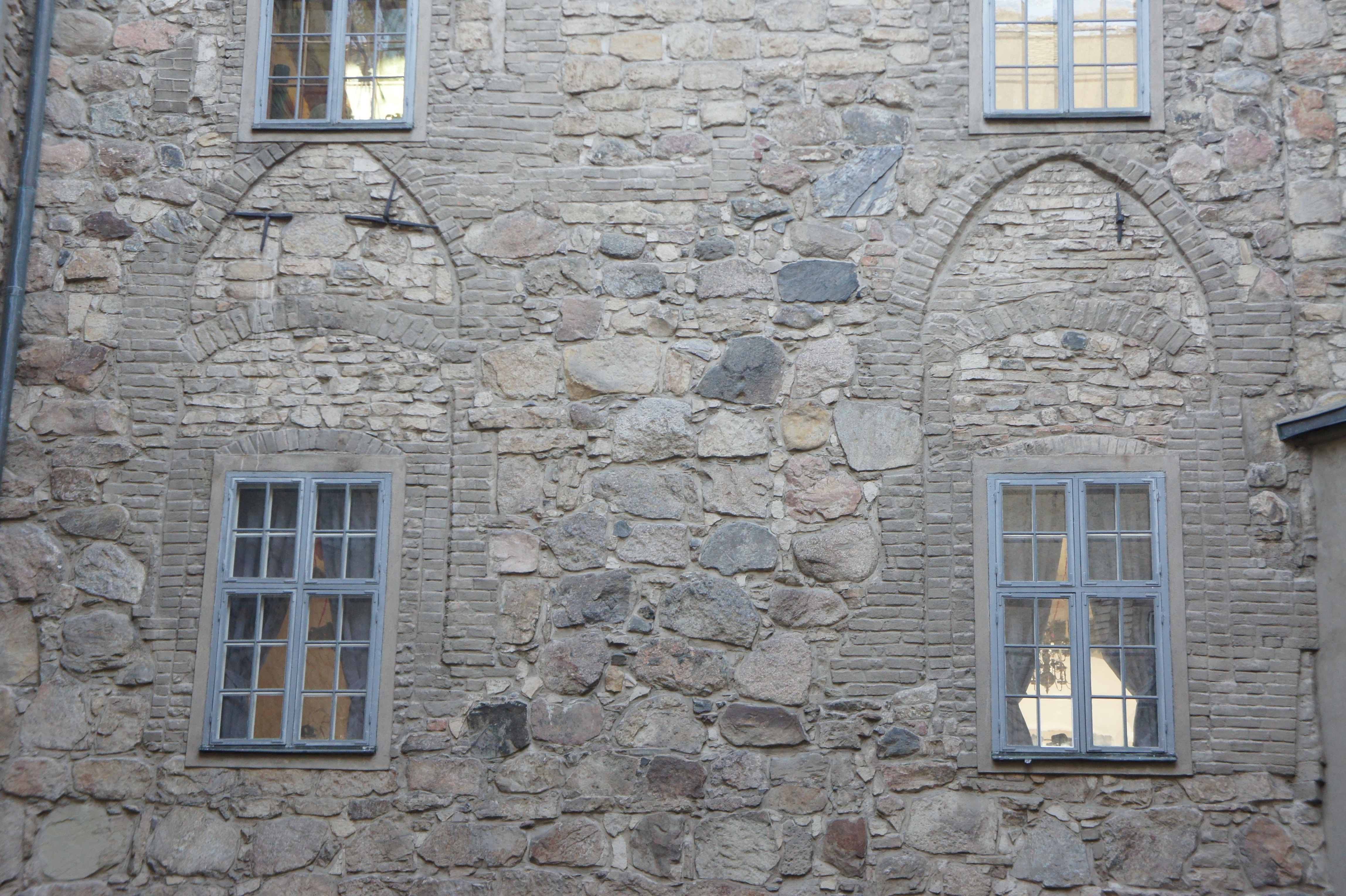 Rests of pointed arch windows, Örebro castle, Sweden